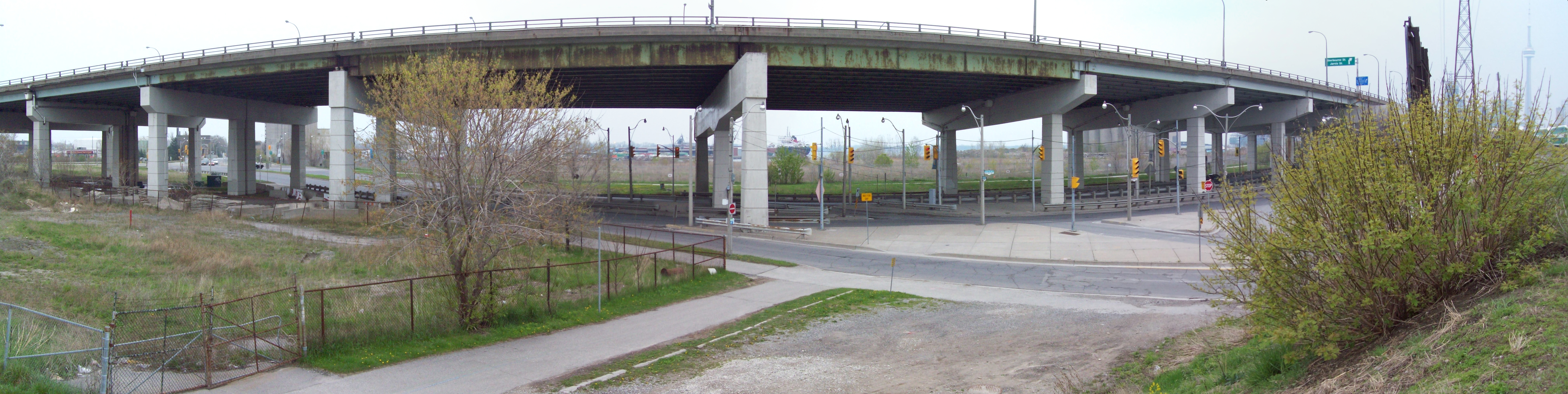 I took a series of four pictures of the intersection(s) of Cherry Street and Lakeshore Boulevard, just north of the mouth of the Don River into Toronto Harbour. Cherry and Lakeshore merge for about one hundred metres -- hence two intersections. There are tentative plans build a streetcar plan down Cherry. The raised highway is the Gardiner Expressway. I am standing on a railway embankment. In 2014 mayoralty candidate John Tory backed a plan to for the aging Gardiner Expressway to re-route and rebuilt a portion of the Gardiner on a slightly more northern right-of-way, just south of this railway embankment. Tory was elected, and this plan is one of three under consideration. The other two are to fix the Gardiner from Jarvis Street to the Don Valley Parkway, and to tear it down, and widen the parallel arterial road, Lake Shore Boulevard. The teardown is the cheapest option. Simple repair would cost half a billion dollars. Realignment next to the railway embankment would cost an additional $200 million. What none of those advocating realignment are saying is that the tear down of the kilometer of the Gardiner next to the Keating Channel would free up a couple of dozen acres of potentially valuable waterfront property.